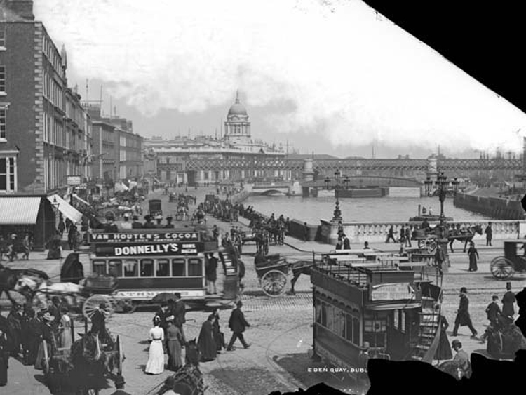 NLI Ref.: L_ROY_03114